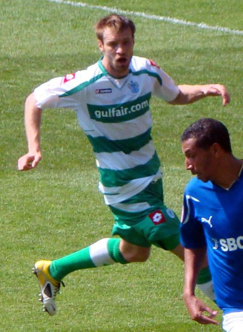 Kaspars Gorkšs cropped from 23/04/11 Cardiff V QPR, Championship, Cardiff City Stadium, Cardiff, Wales